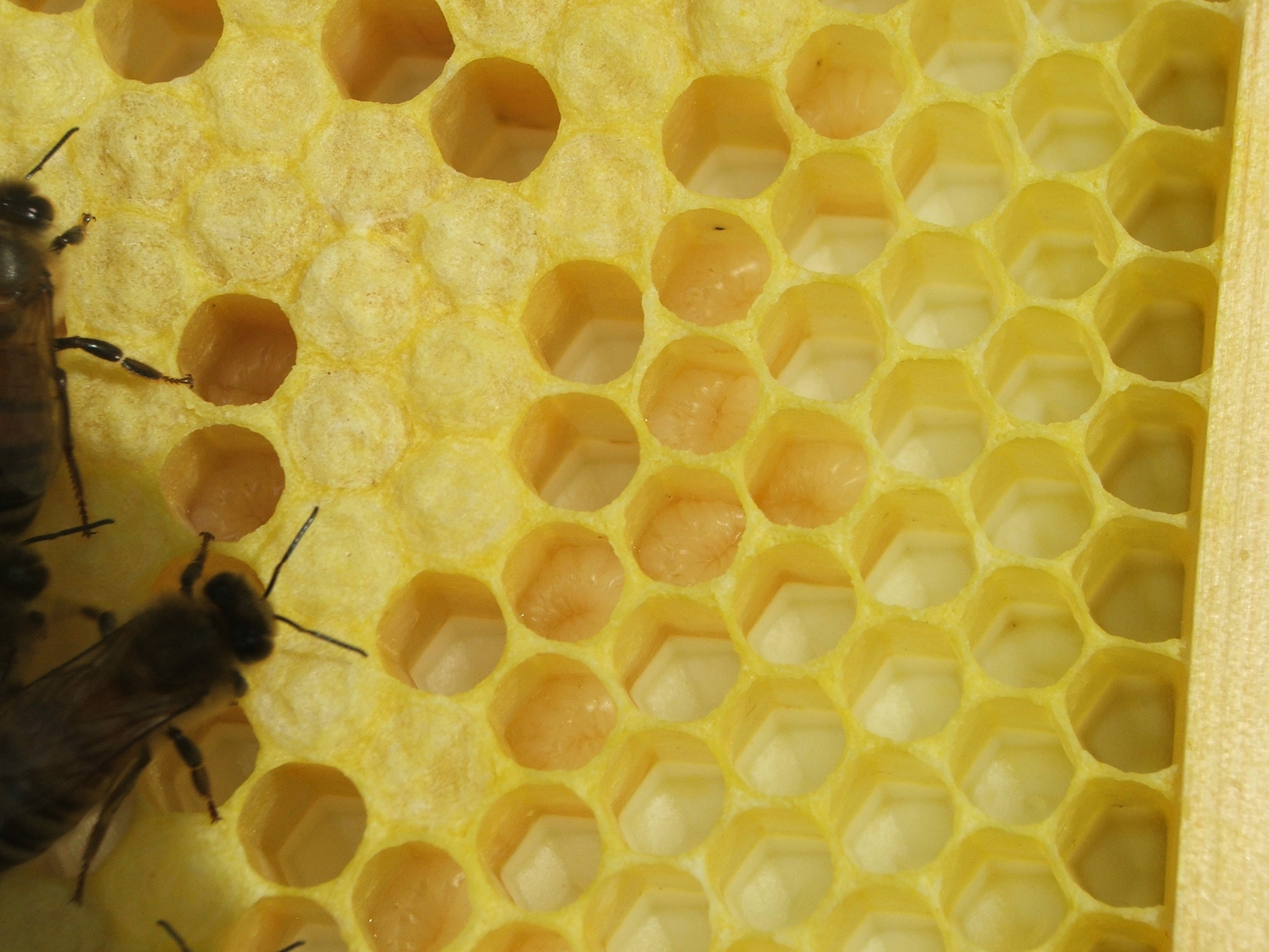 This newly created brood comb is complete with capped brood and uncapped larva